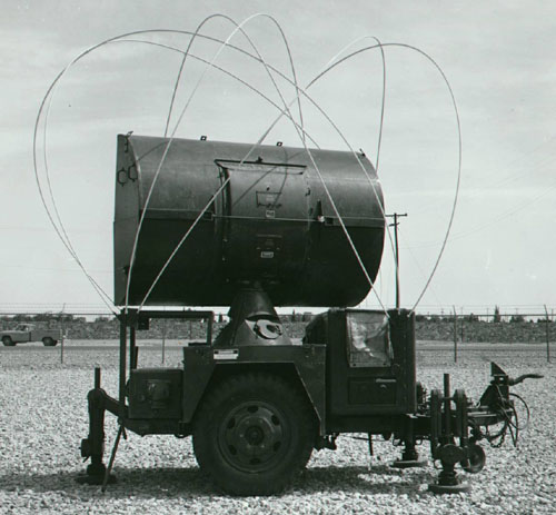 A MIM-23 Hawk CWAR radar. From a US Army website. Thus public domain.